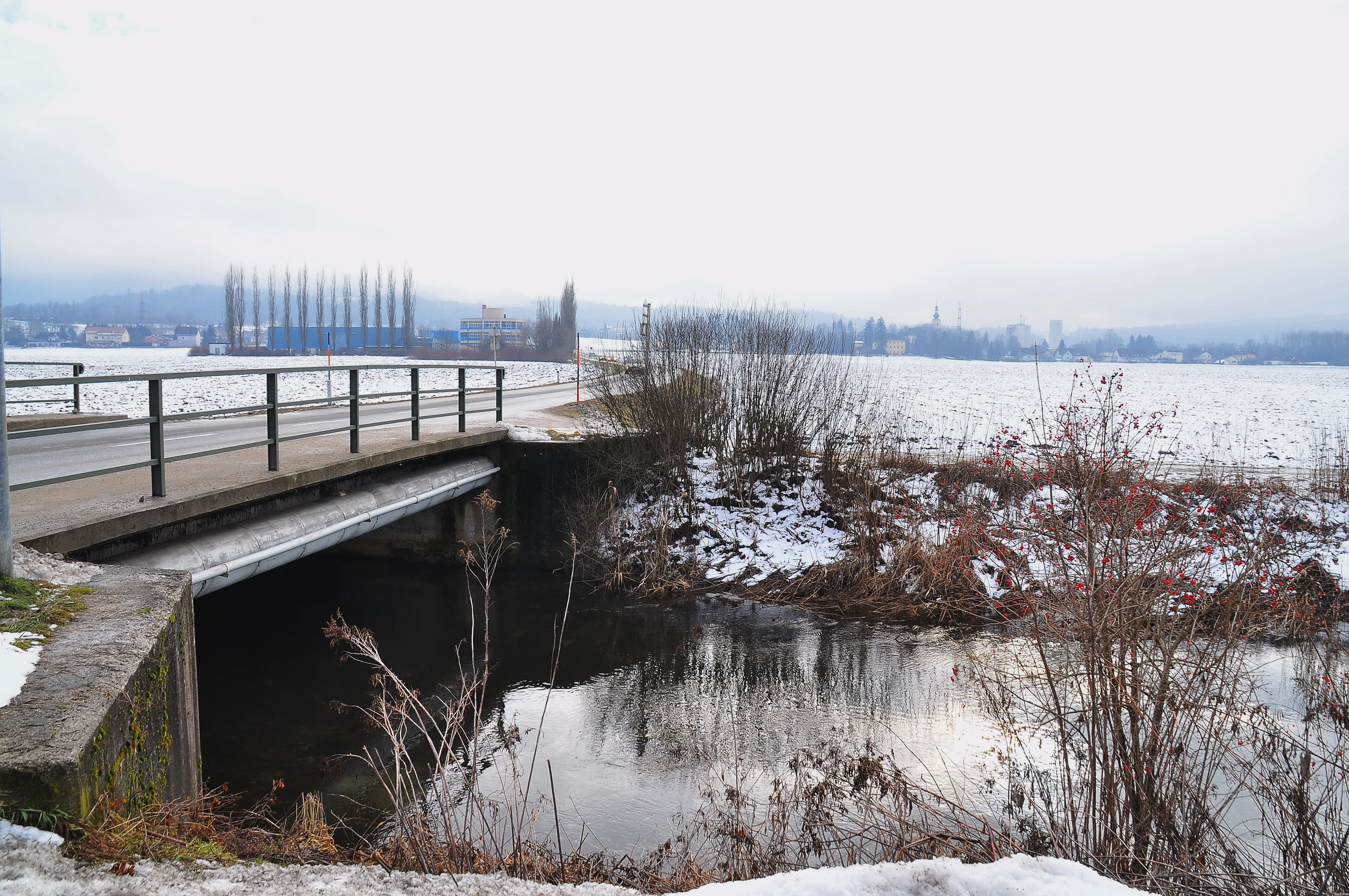 Waidmannsdorfer Street with bridge across the Glanfurt river in the 13th district "Viktring" of the Carinthian capital Klagenfurt, Carinthia, Austria